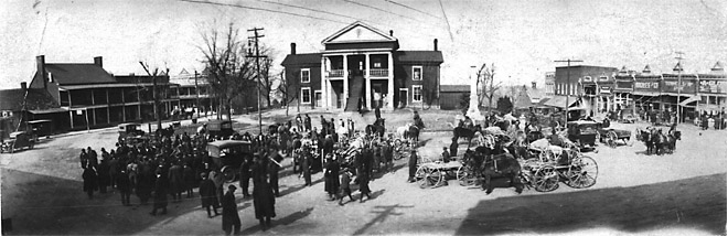 Henry_County_Courthouse_Square, Martinsville, Virginia, with horse and buggies.